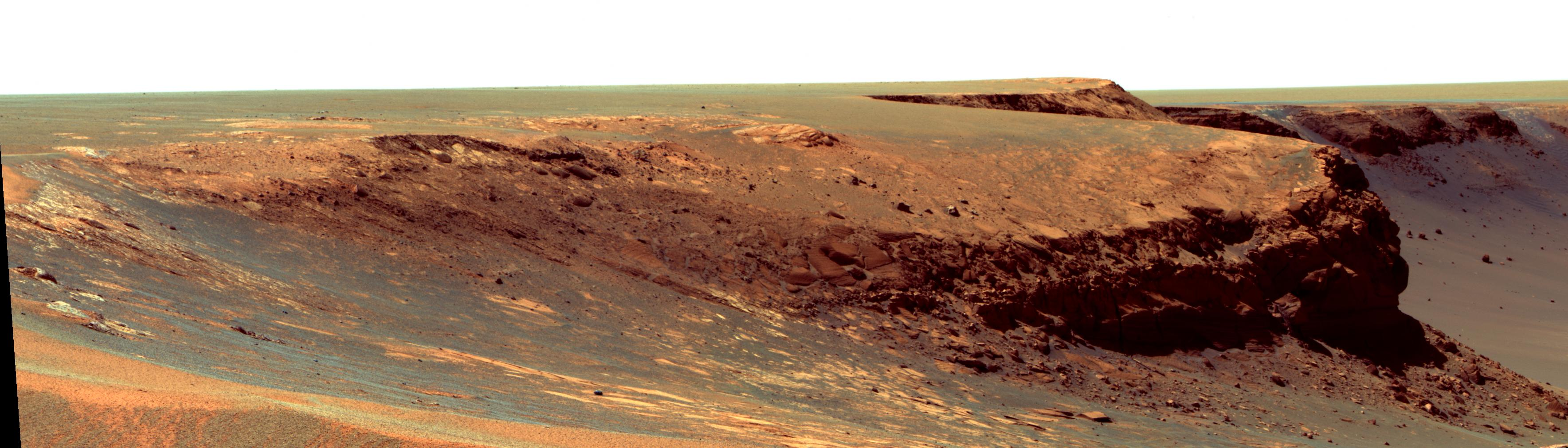 This view of Victoria crater is looking north from "Duck Bay" towards the dramatic promontory called "Cape Verde." The dramatic cliff of layered rocks is about 50 meters (about 165 feet) away from the rover and is about 6 meters (about 20 feet) tall. The taller promontory beyond that is about 100 meters (about 325 feet) away, and the vista beyond that extends away for more than 400 meters (about 1300 feet) into the distance. This is an enhanced false color rendering of images taken by the panoramic camera (Pancam) on NASA's Mars Exploration Rover Opportunity during the rover's 952nd sol, or Martian day, (Sept. 28, 2006) using the camera's 750-nanometer, 530-nanometer and 430-nanometer filters.